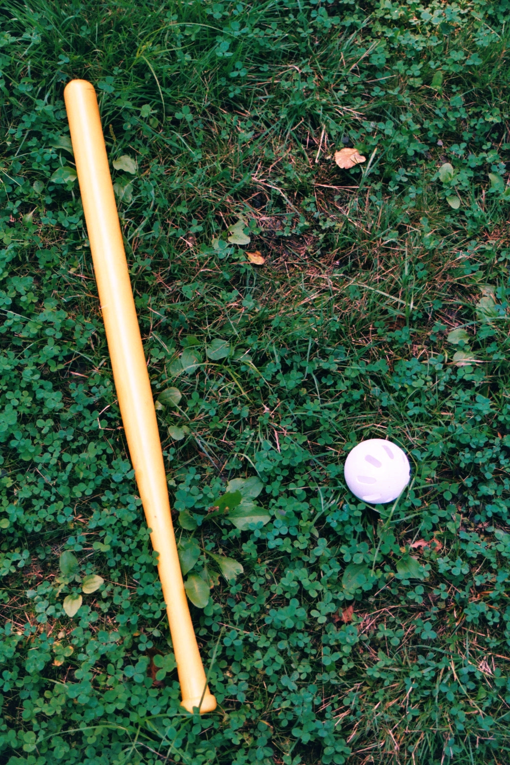 Photograph of wiffle bat and ball on grass taken by Rmrfstar.